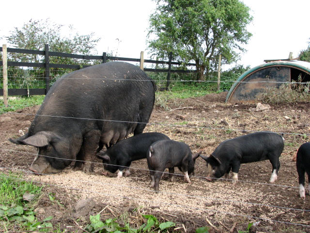 Berkshire pigs Sow and piglets. The Berkshire pig is the oldest breed of pig in Britain. It is believed that the breed originates from around Wantage in the Thames Valley and dates back to ca. 1790. According to the Rare Breeds Survival Trust there are just 359 breeding sows and 89 boars left in this country, and only three pig farmers in Berkshire today breed Berkshire pigs. More recently, a number of breeders have developed their own specialised markets for Berkshire pig meat.